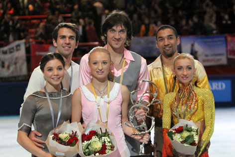 Jessica Dubé / Bryce Davison (2), Maria Mukhortova / Maxim Trankov (1), Aliona Savchenko / Robin Szolkowy (3) at the 2009 Trophee Eric Bompard.